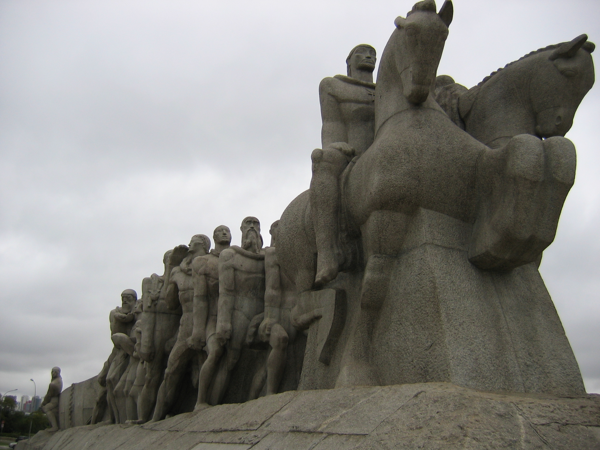 Monument for the Bandeiras in Sao Paulo, Brazil